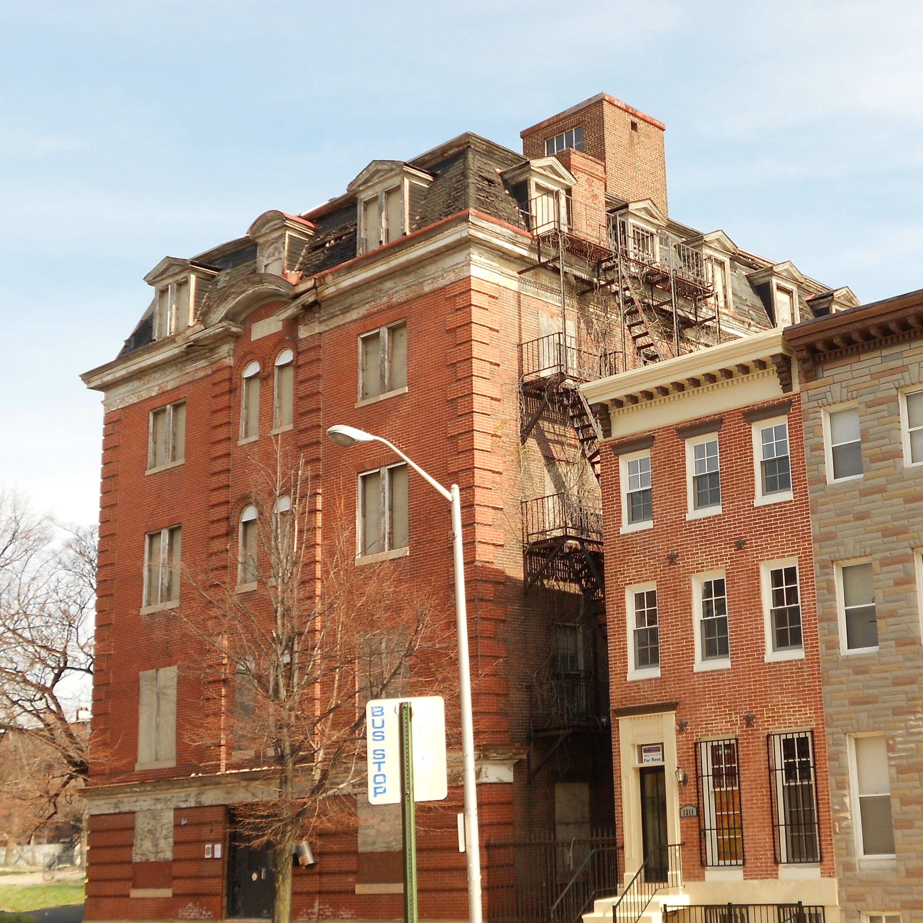 Home of the Friendless on the NRHP since November 8, 2003 at 1313 Druid Hill Ave. in central Baltimore, Maryland.